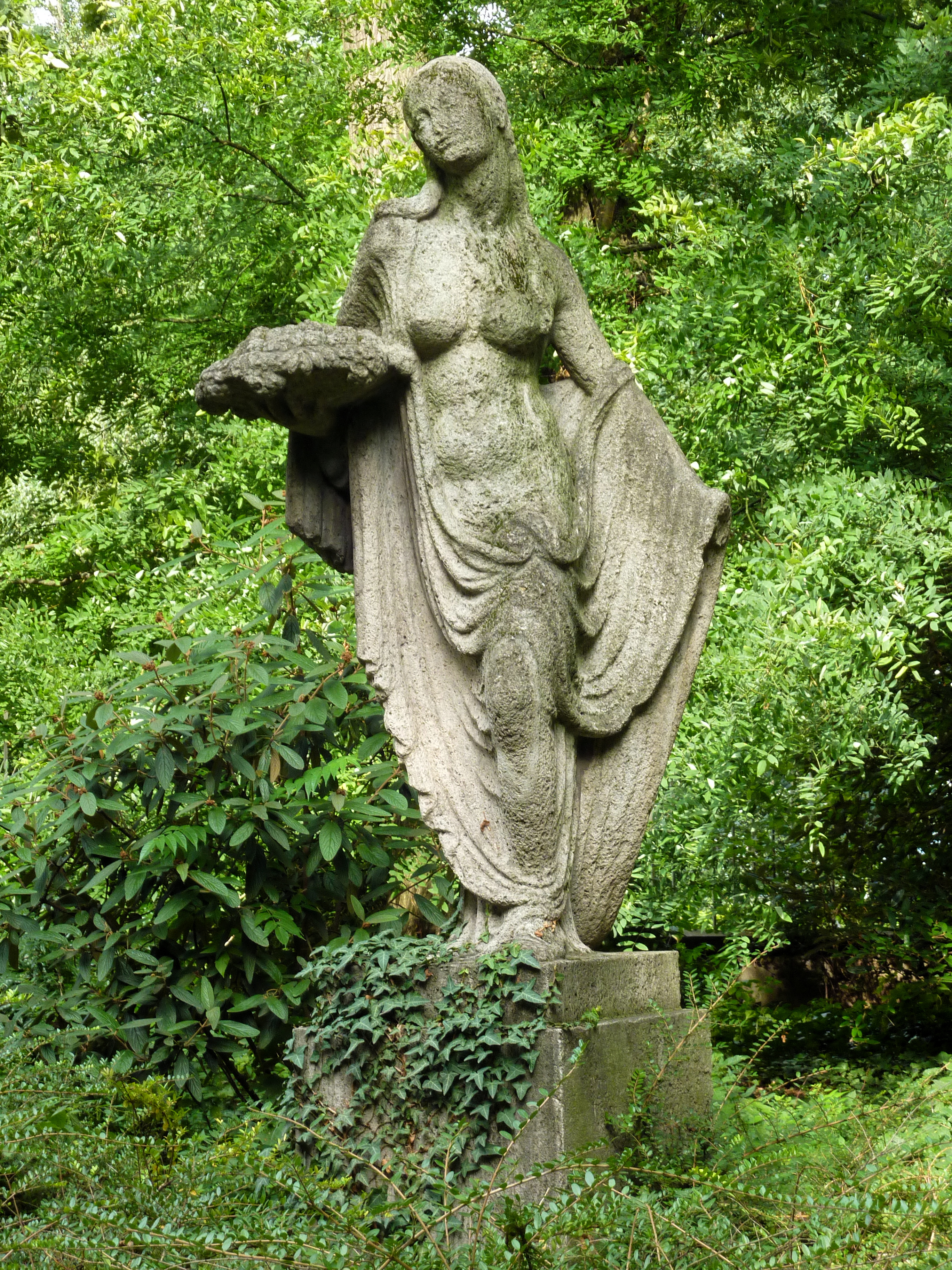 Frankfurt/M., Germany: Sculpture Flora, created by sculptor Paul Seiler in 1900, in the public park Taunusanlage